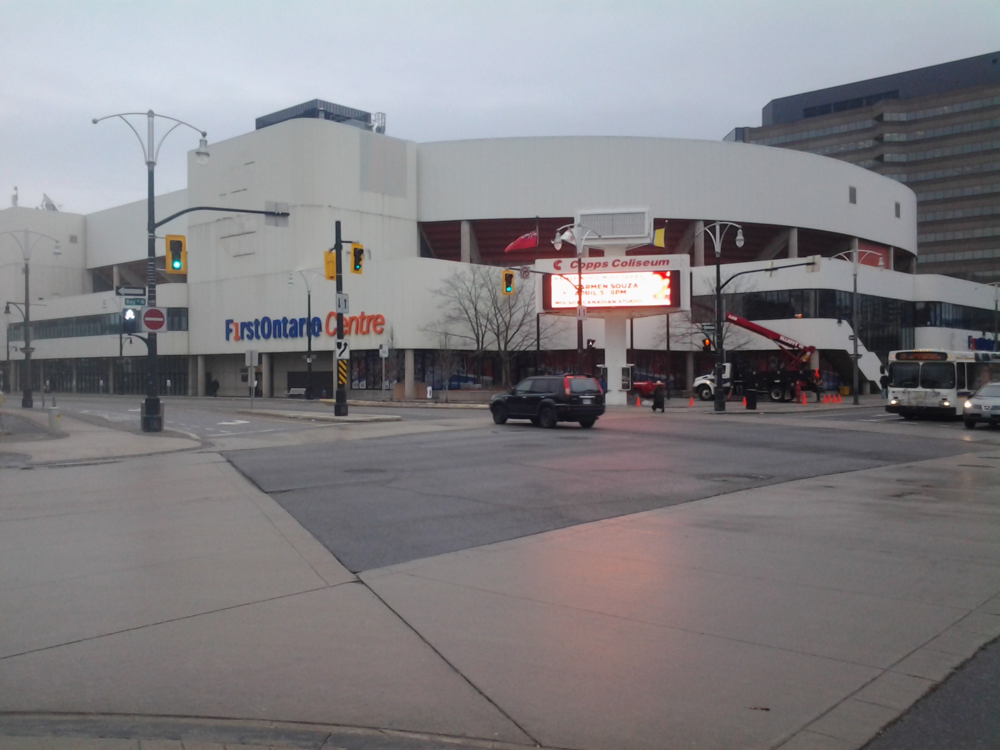 Photo of FirstOntario Centre. They had yet to re-brand the old Copps Coliseum display board at the time this photo was taken